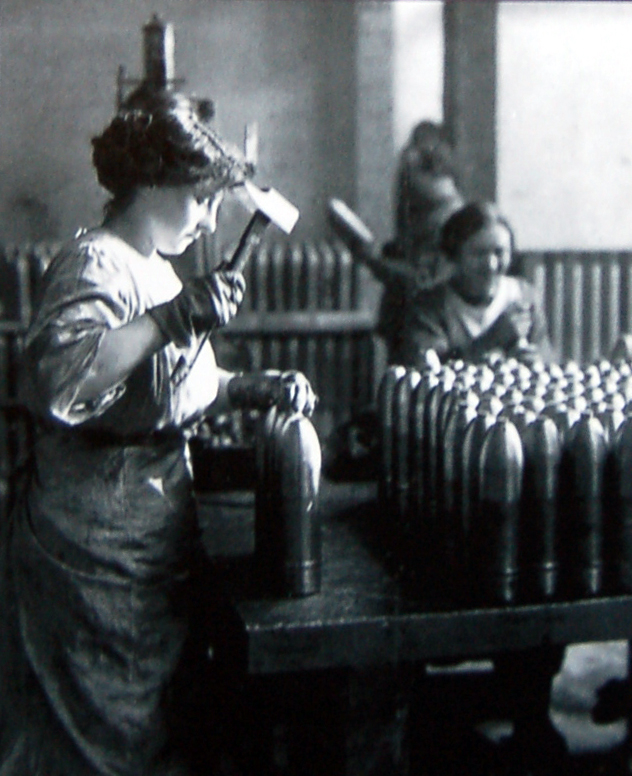 A woman works in a shell factory (1915-1916).